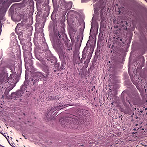 Close-up (100x magnification) of the cyst of the pork tapeworm, Taenia solium. The black oval in the middle is the beginning of a sucker in the tapeworm's scolex.